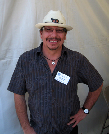 Kevin Pourier (Oglala Lakota), jeweler and buffalo horn spoon carver from South Dakota